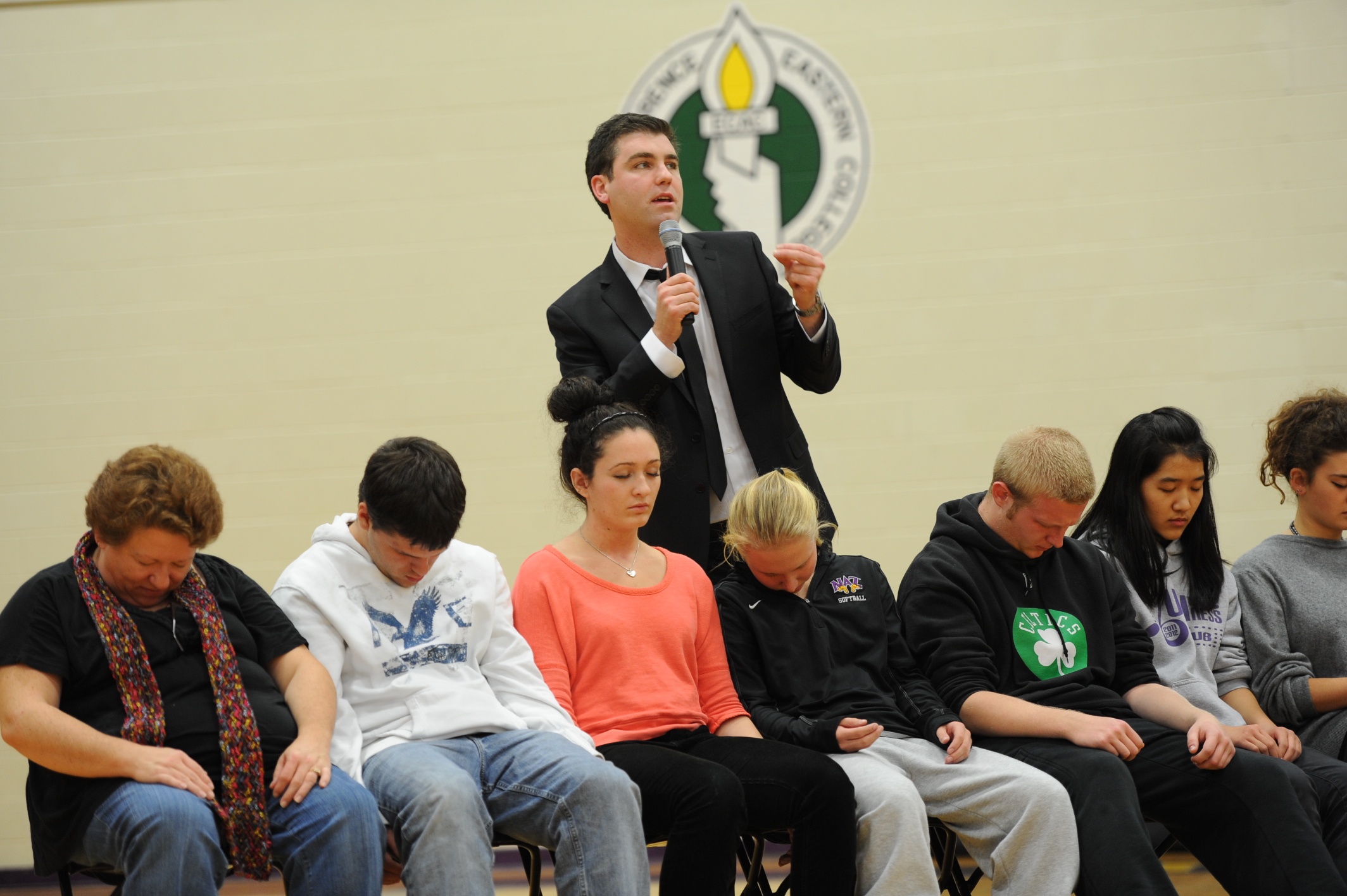 Stage hypnotist Kevin Hurley visits Nazareth College for a performance during Family Week 2012.